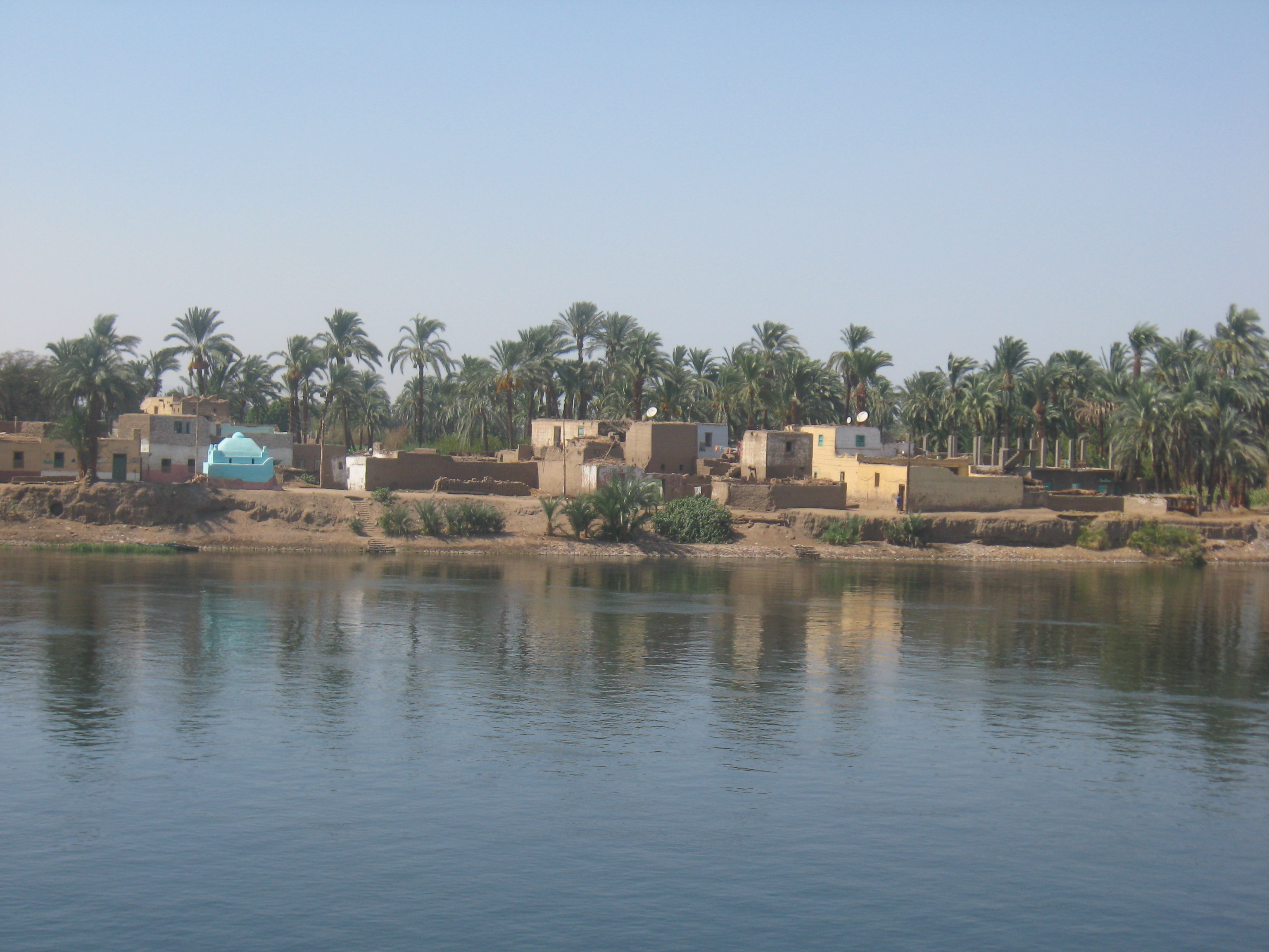 The Nile